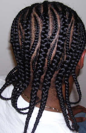 long cornrow design